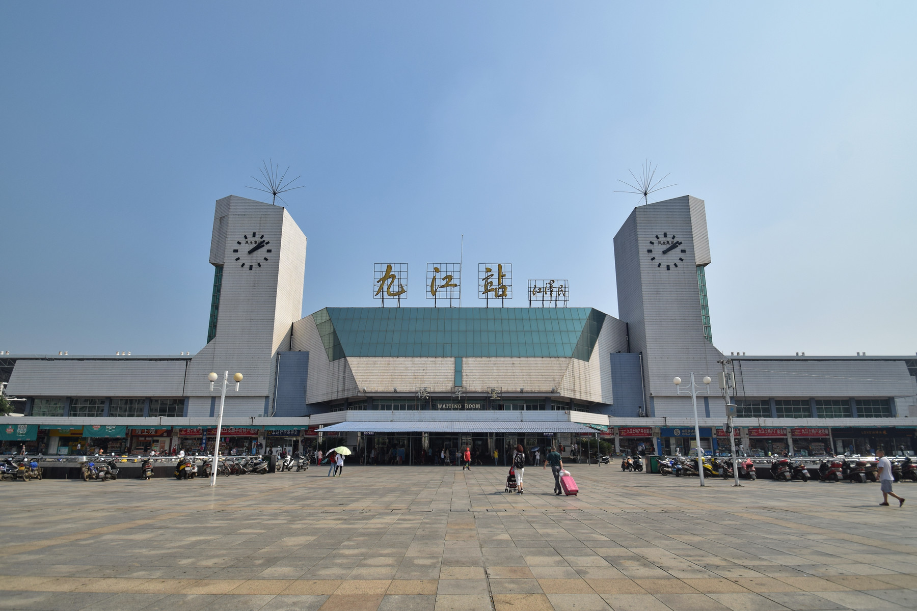 Jiujiang Railway Station